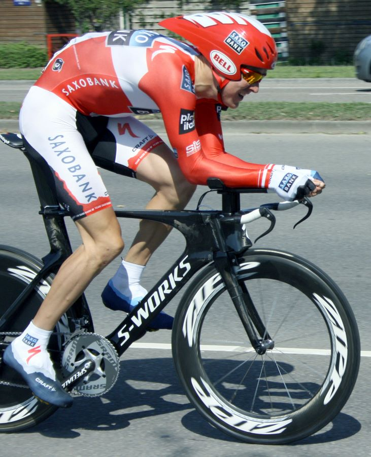 Lars Bak at the 2009 Eneco Tour prologue